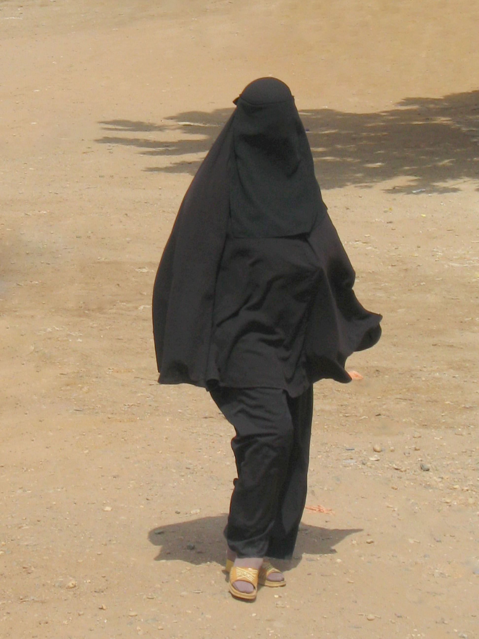 Sudanese woman in black dress, Sudan.